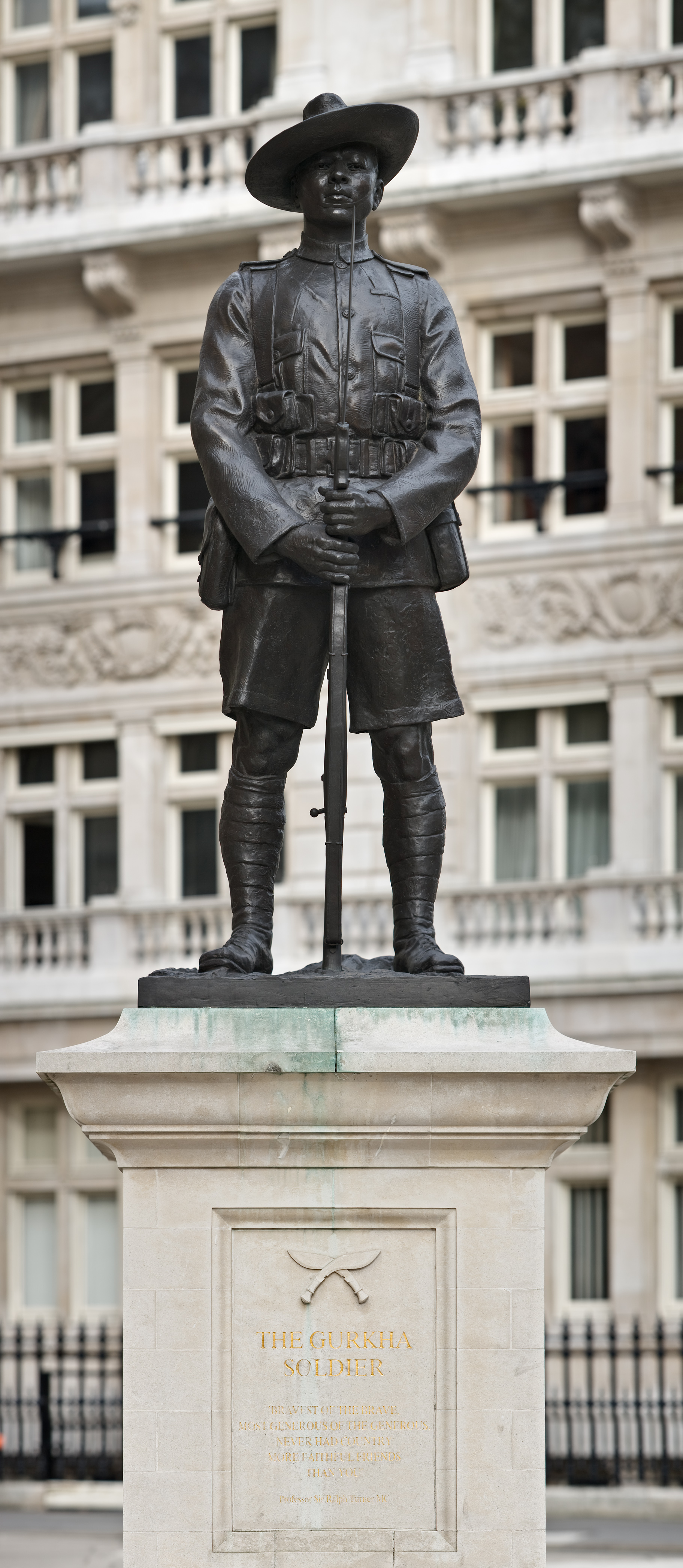 Relics of British Colonialism -- A monument to the Gurkha Soldier near the Ministry of Defence in London, England.